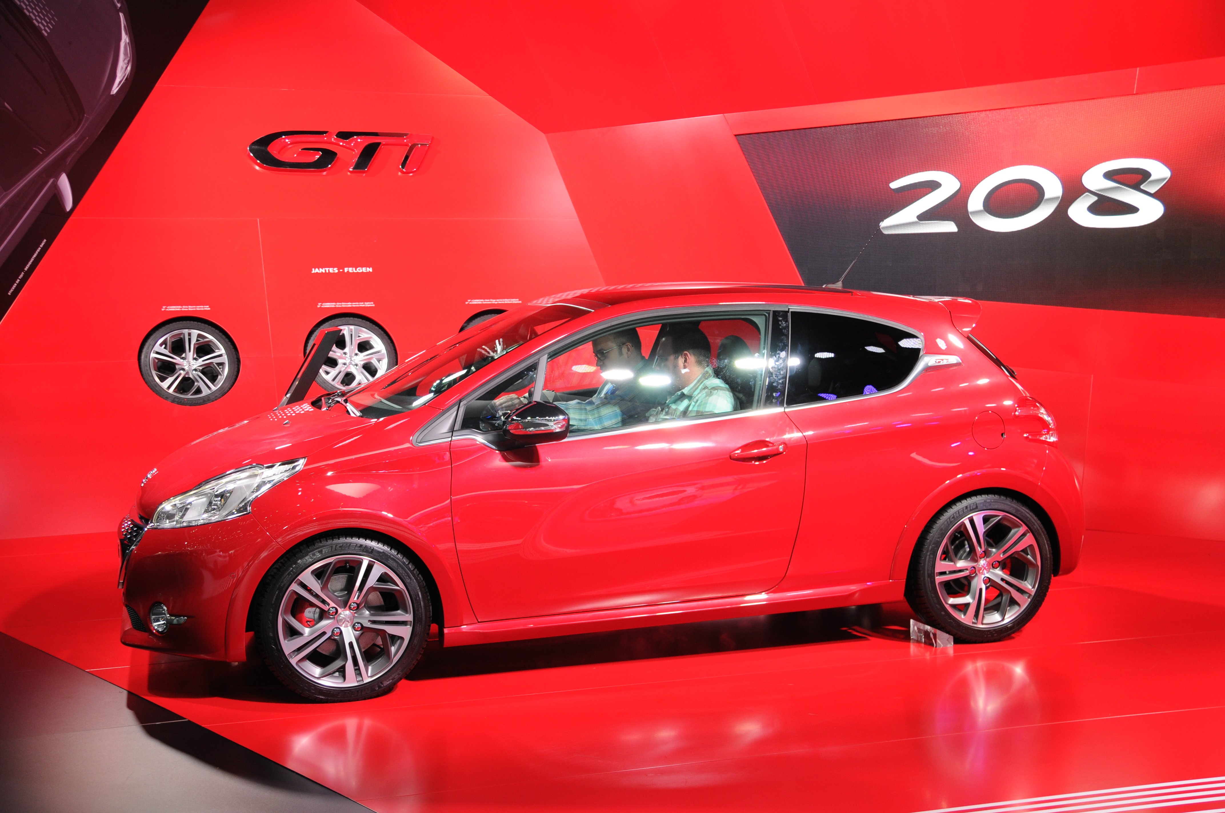 Geneva Motor Show 2013 (photos taken on the first press day)